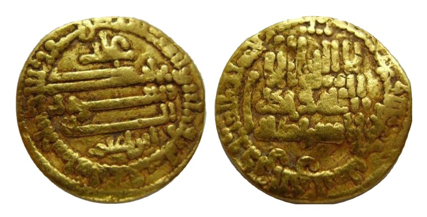 Aghlabid dinar (gold, 1.8 cm, 4.3 g), minted in 286 AH / 899 AD during the reign of the Aghlabid emir Abou Ishaq Ibrahim II (r. 261-289 H / 874-902 J.-C.). Musée national des antiquités et des arts islamiques, Algiers, Algeria